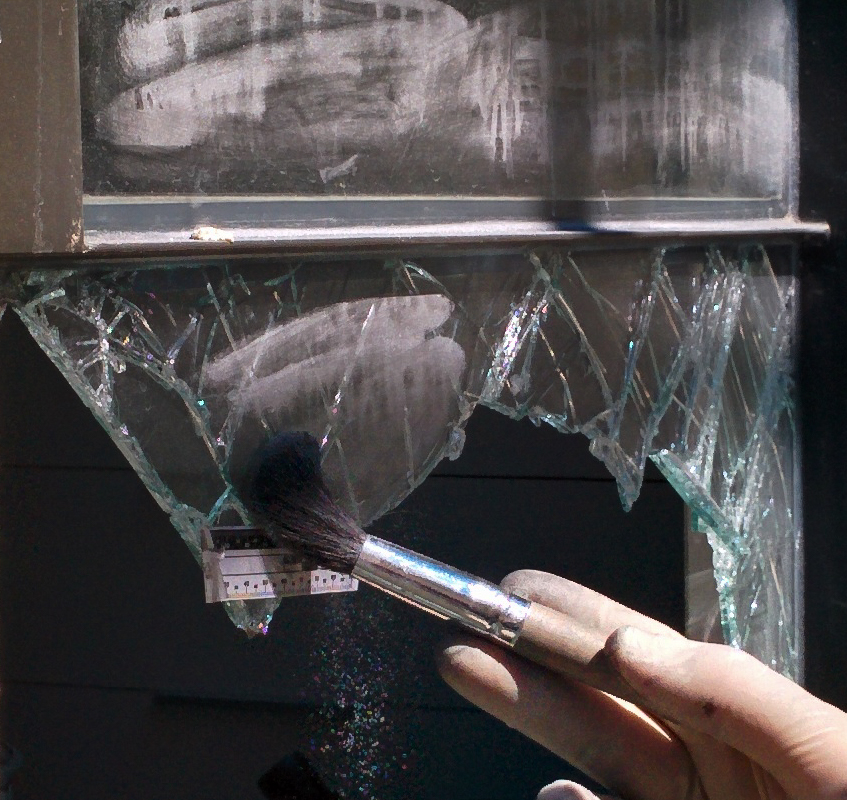 forensic fingerprints dusting of a burglary scene